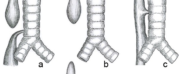 Common anatomical types of oesophageal atresia a) Oesophageal atresia with distal tracheooesophageal fistula (86%). b) Isolated esophageal atresia without tracheooesophageal fistula (7%). c) H-type tracheooesophageal fistula (4%)